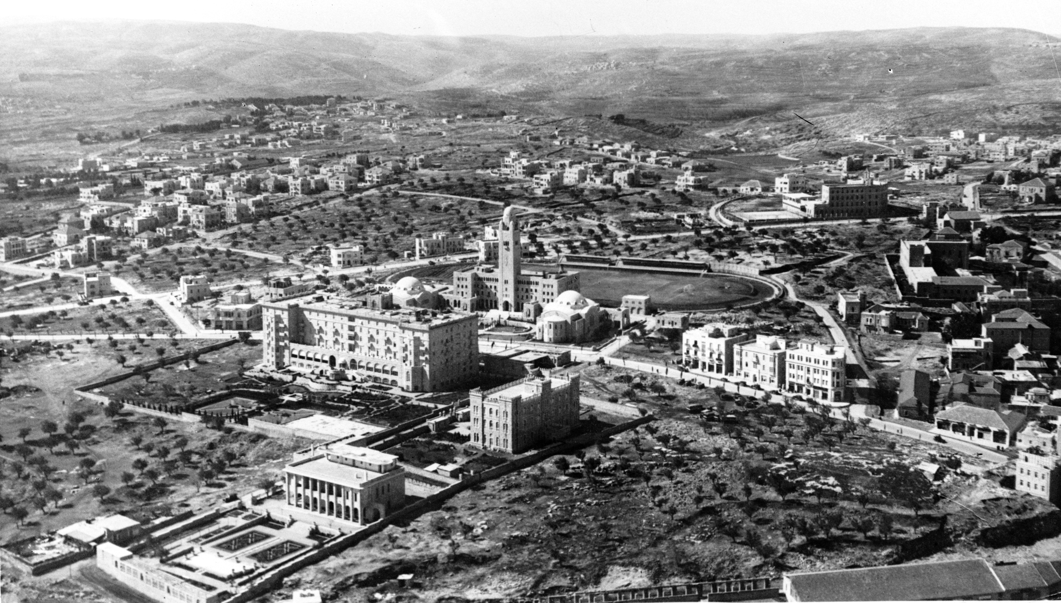 Air views of Palestine. Jerusalem from the air. Newer Jerusalem. Y.M.C.A. and King David Hotel. Looking southwest with French consulate general and the Jesuit seminary